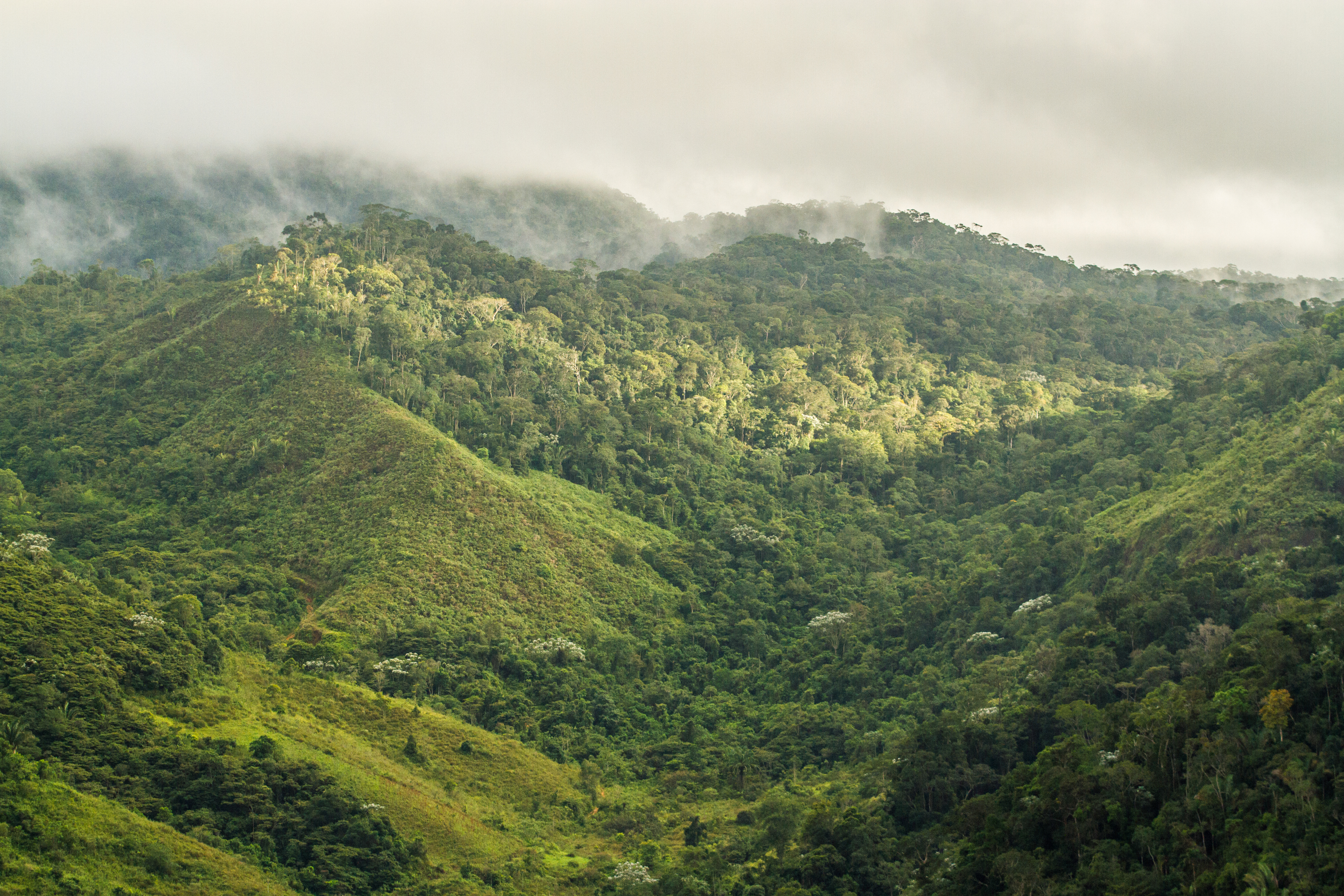 Overview of the rain forest montana, in the Alto Cariri National Park.